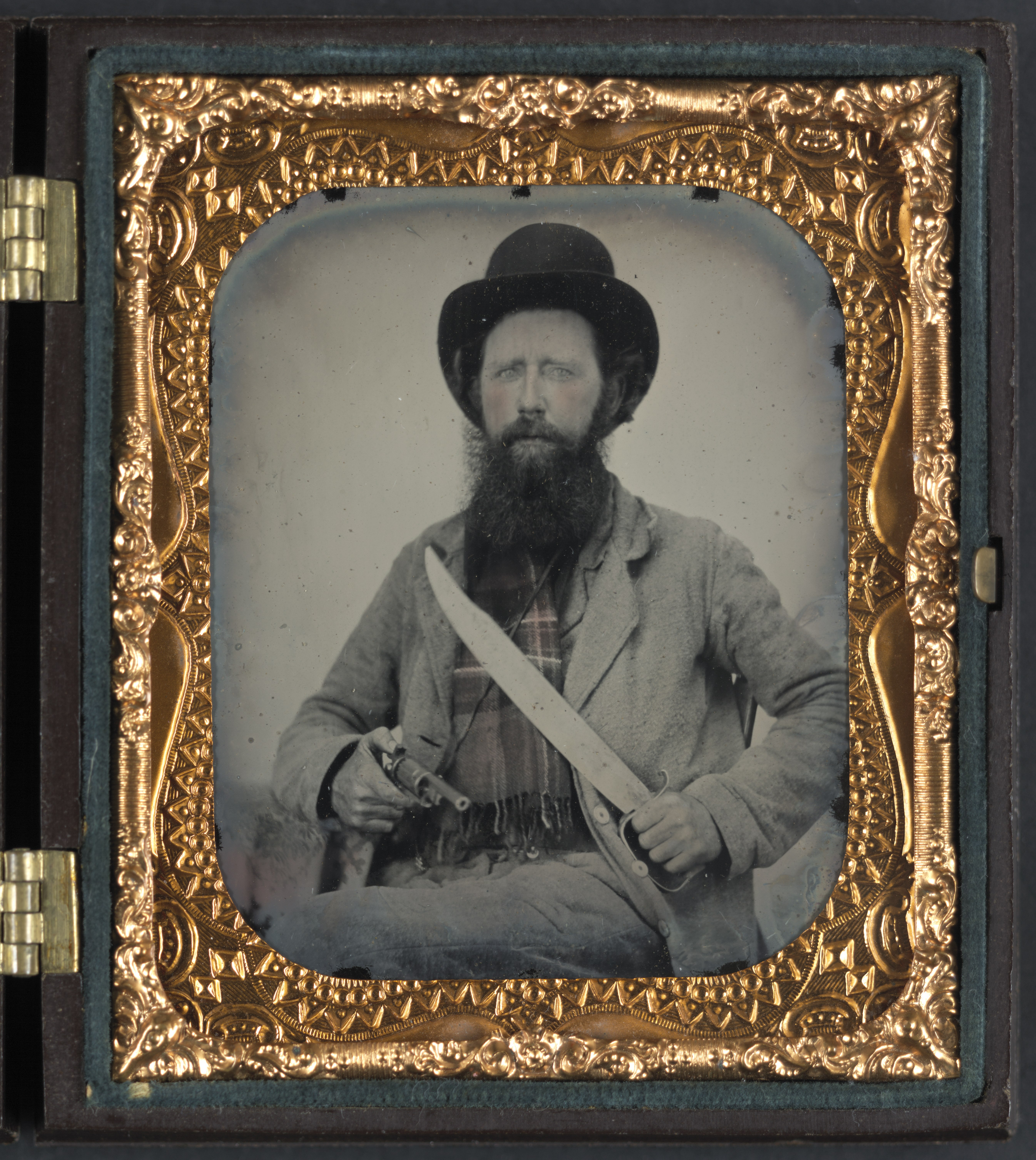 Title: Private Thomas F. Bates of D Company, 6th Texas Infantry Regiment, with D guard Bowie knife and John Walch pocket revolver Abstract/medium: 1 photograph : sixth-plate ambrotype, hand-colored ; 9.5 x 8.3 cm (case)